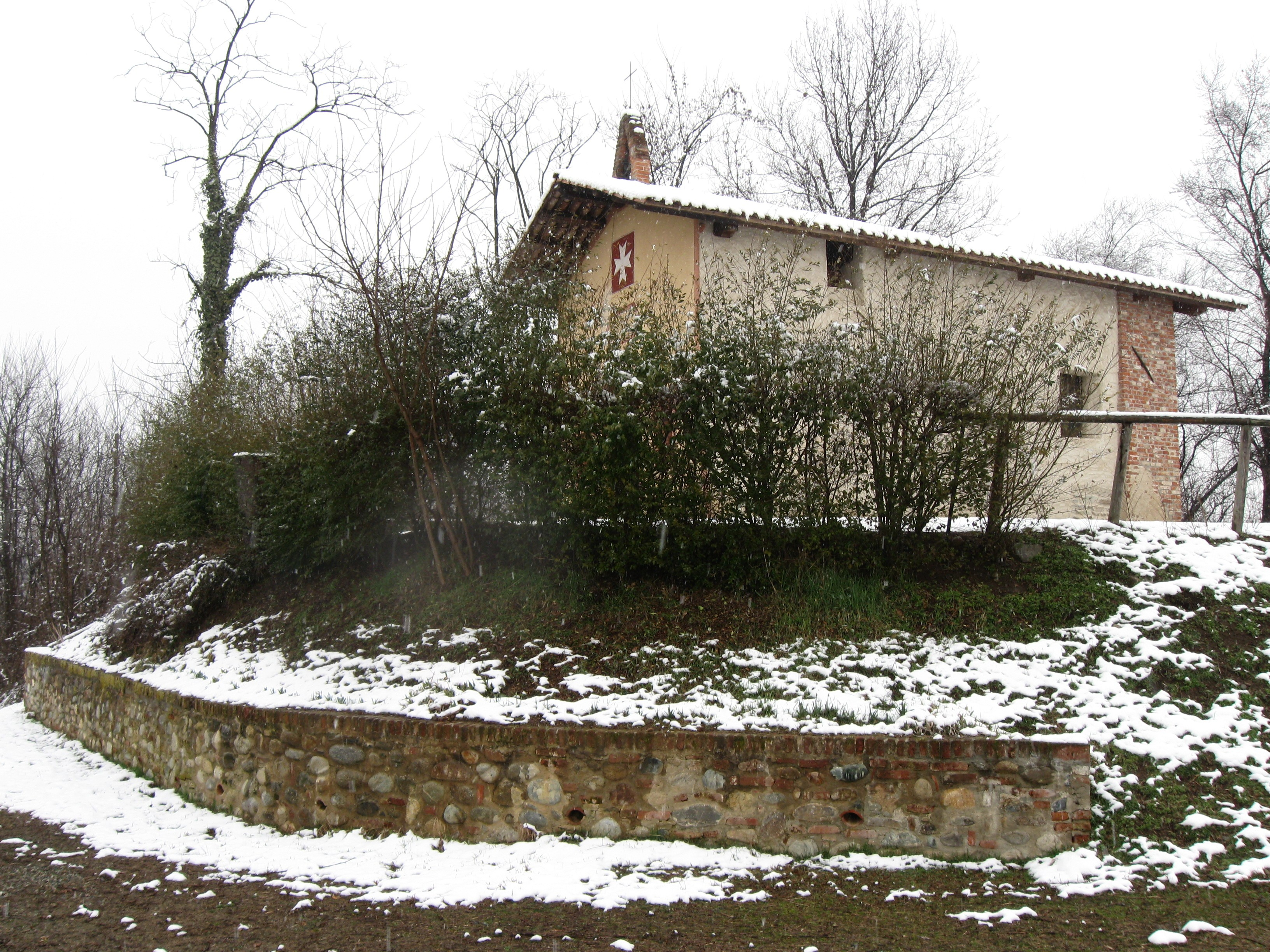 the church of San Giacomo of Ruspaglia